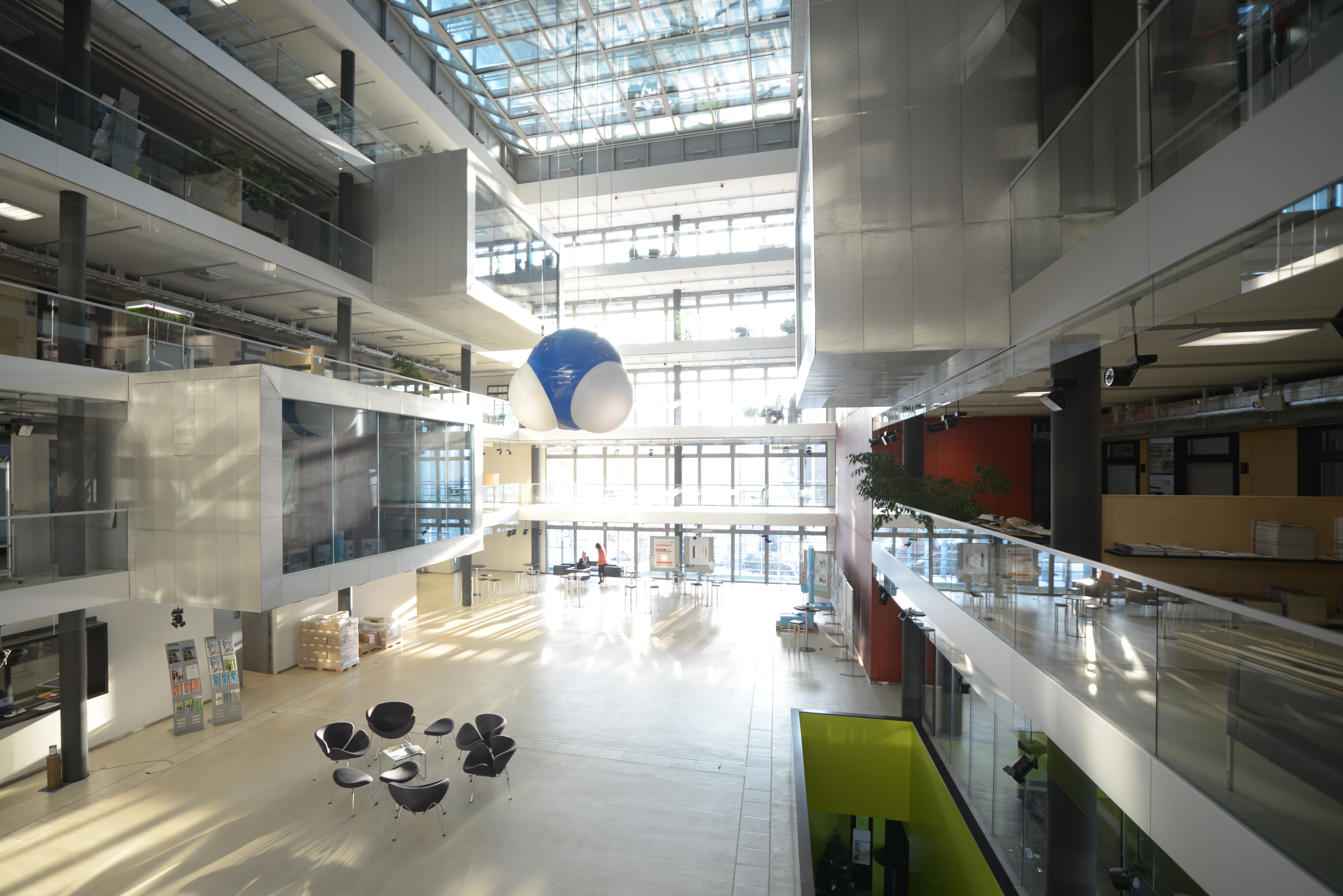 Atrium of Eawag Forum Chriesbach building